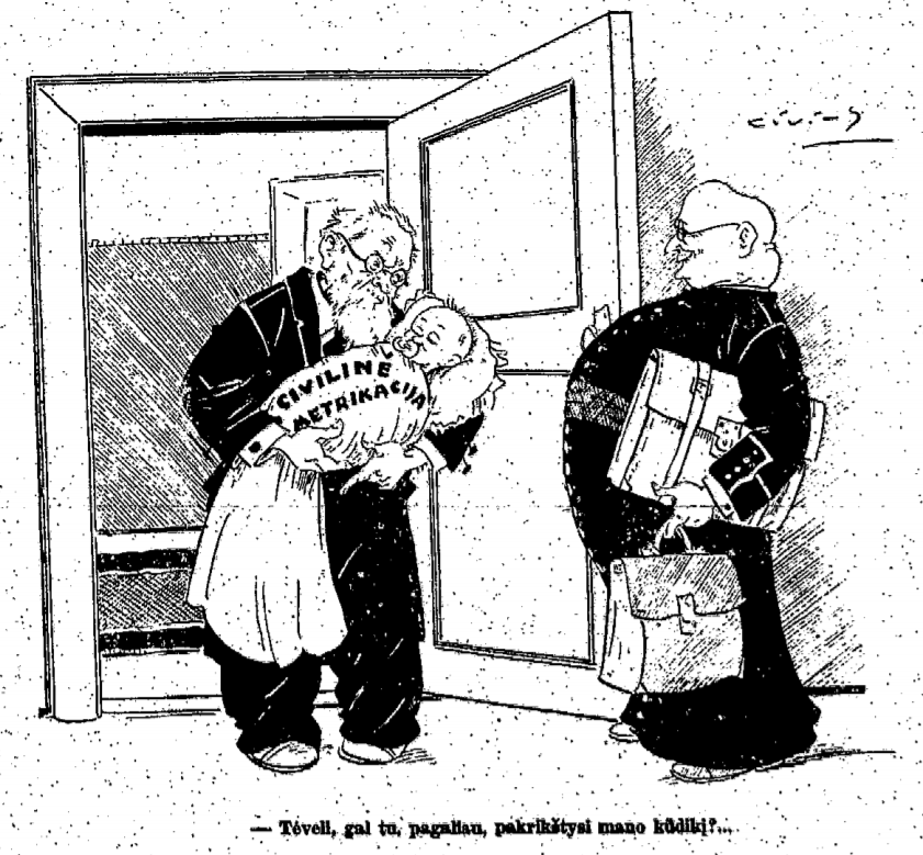 Caricature of Šliūpas and his lobbying efforts to establish civil registration of births, marriages, and deaths in Lithuania: he brings a baby (civil registration) to Prime Minister Vladas Mironas (who was also a Catholic priest) asking to baptize it.